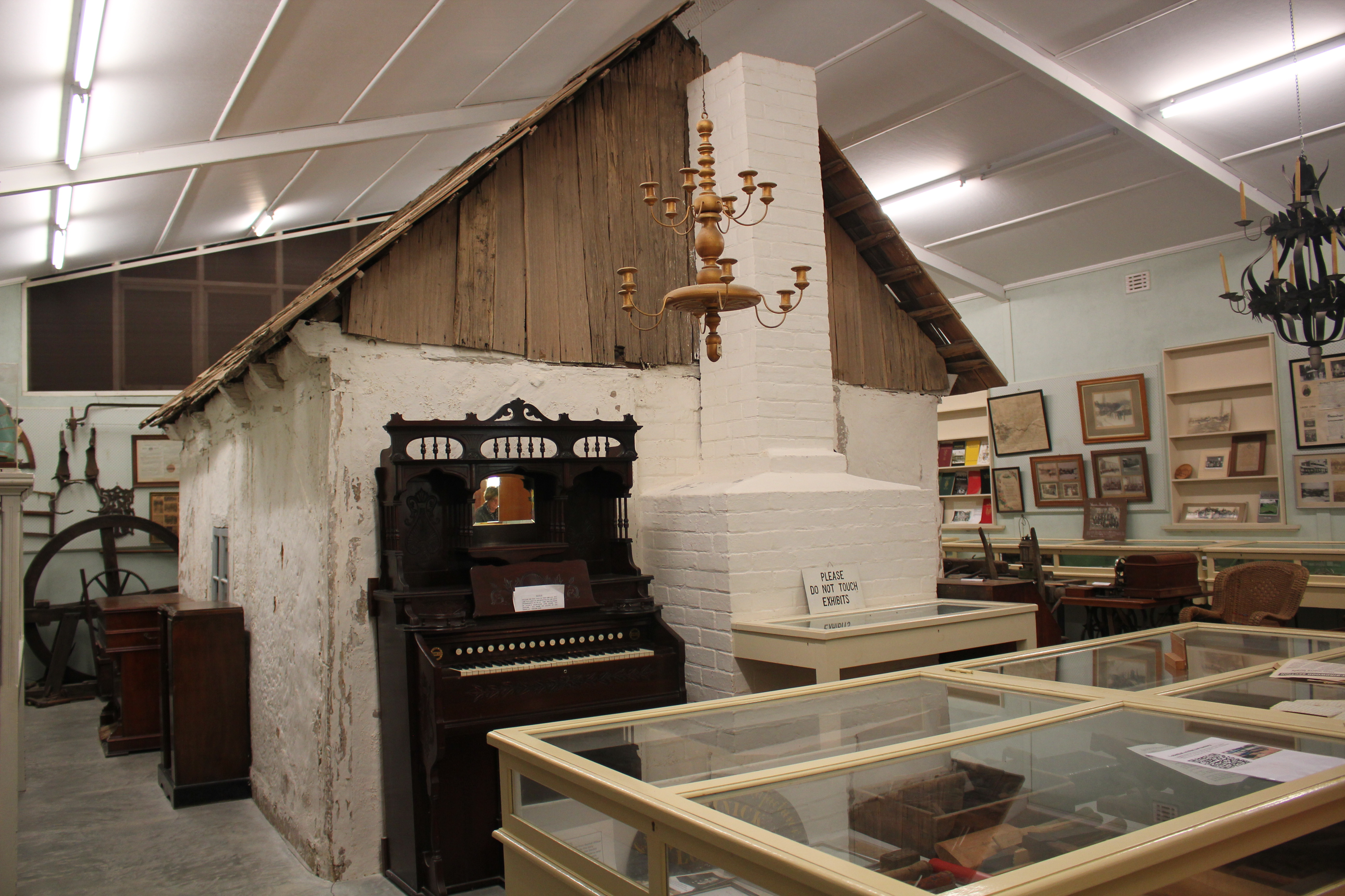 Interior display of the Lobethal Archives and Museum, showing the original seminary building from 1845 inside the present-day museum built around the original building